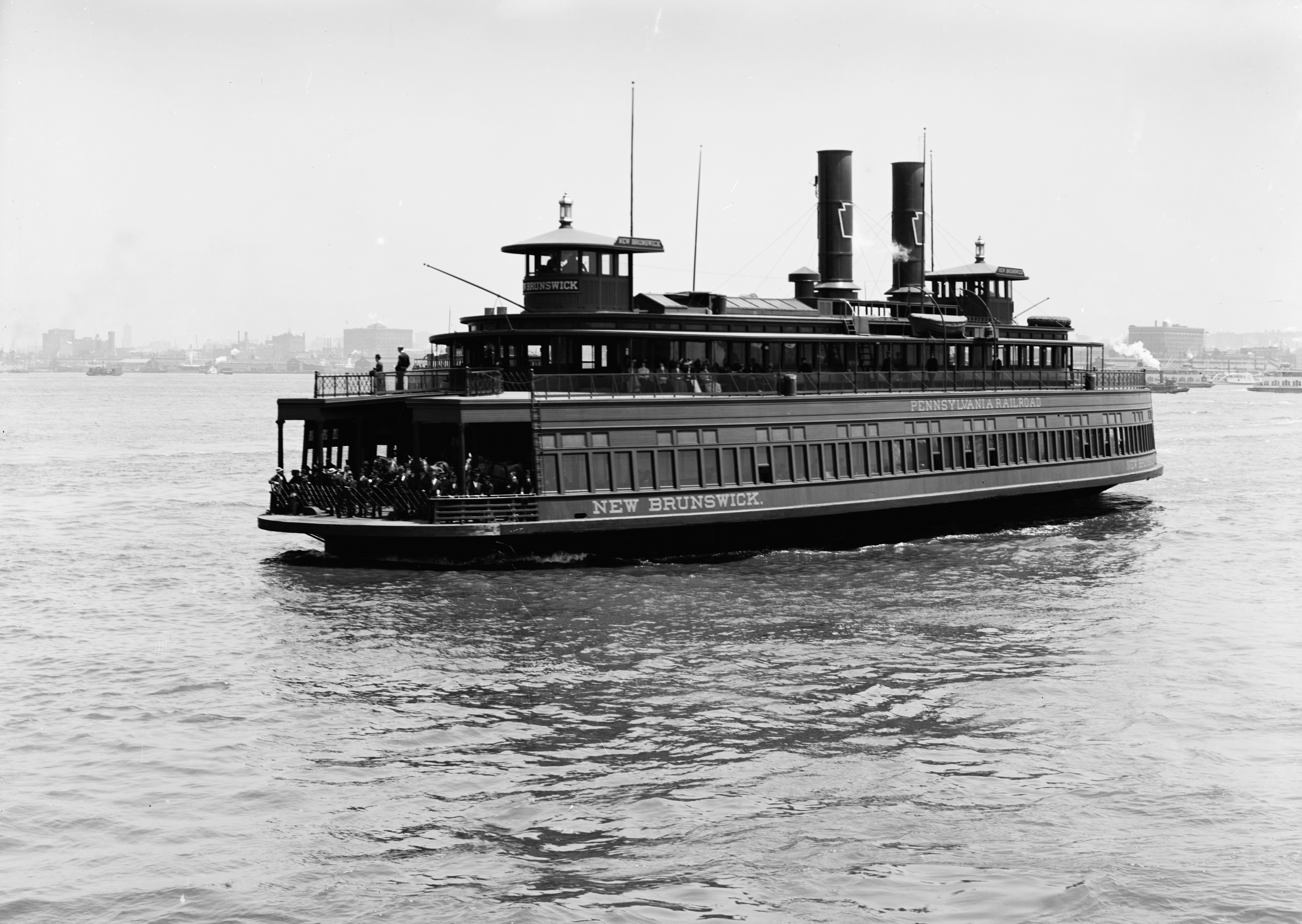 Pennsylvania Railroad ferry New Brunswick Medium: 1 negative : glass ; 8 x 10 in. Reproduction Number: LC-D4-22295 (b&w glass neg.) Call Number: LC-D4-22295 [P&P] Repository: Library of Congress Prints and Photographs Division Washington, D.C. 20540 USA Notes: "4081" on negative. Detroit Publishing Co. no. 022295. Gift; State Historical Society of Colorado; 1949.